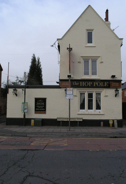 The Hop Pole, Beeston / Chilwell Eagle Eyed viewers, may spot that the double road-name sign alludes to the fact that this pub straddles a border. To the left is High Road, Chilwell to the right Chilwell Road, Beeston. This leads to the tail that in the past, when each of these settlements were under different local government (they are now both in The Borough of Broxtowe) there was a different closing time in the two areas. As a result there was a nightly migration from one side of the bar to the other when one half of the establishment had to stop serving. Whether there is any truth in this story I have no idea. It would have had to have happened before 1934, which is when Stapleford Rural District (containing Chilwell) was merged with Beeston Urban District to become Beeston & Stapleford Urban District - eliminating this border. Unfortunately I was unable to get a satisfactory close-up of the sign due to a strategically placed parking sign.